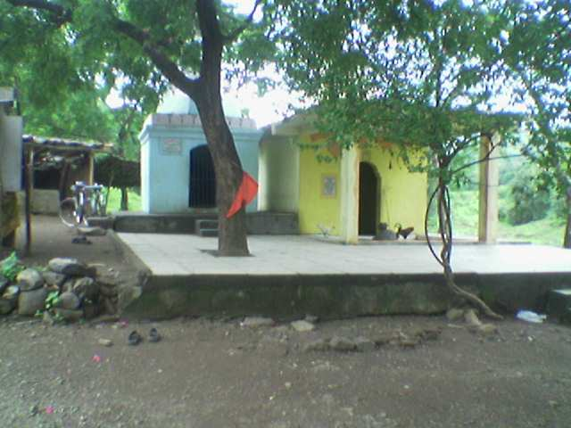 Mandir near geothermal hot water spring picnic spot Unapdev (Dist-Nandurbar)